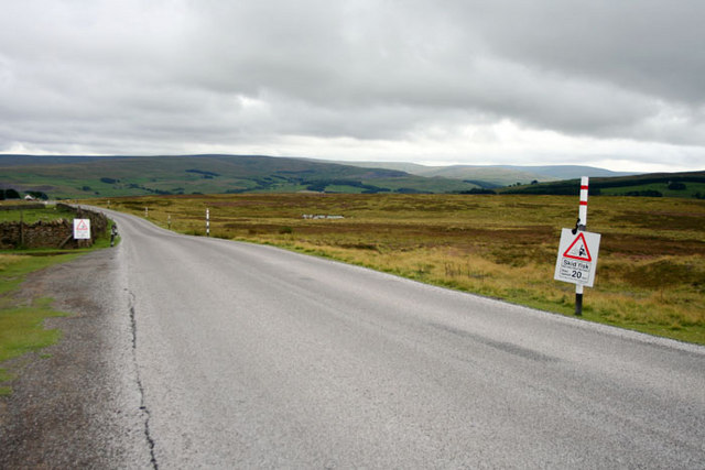 Surface dressing Recently resurfaced road across the fell.